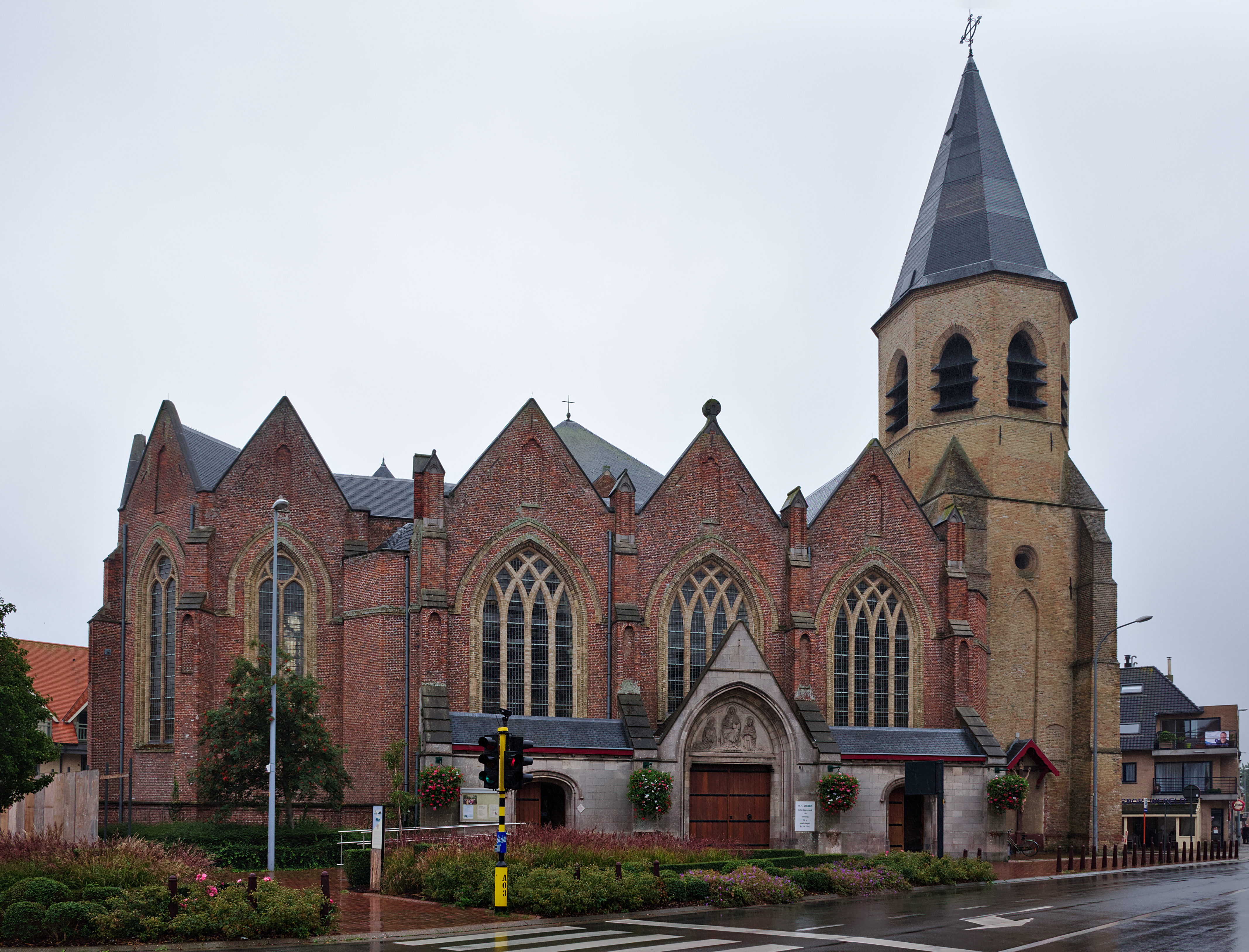 Sint-Willibrorduskerk, Middelkerke